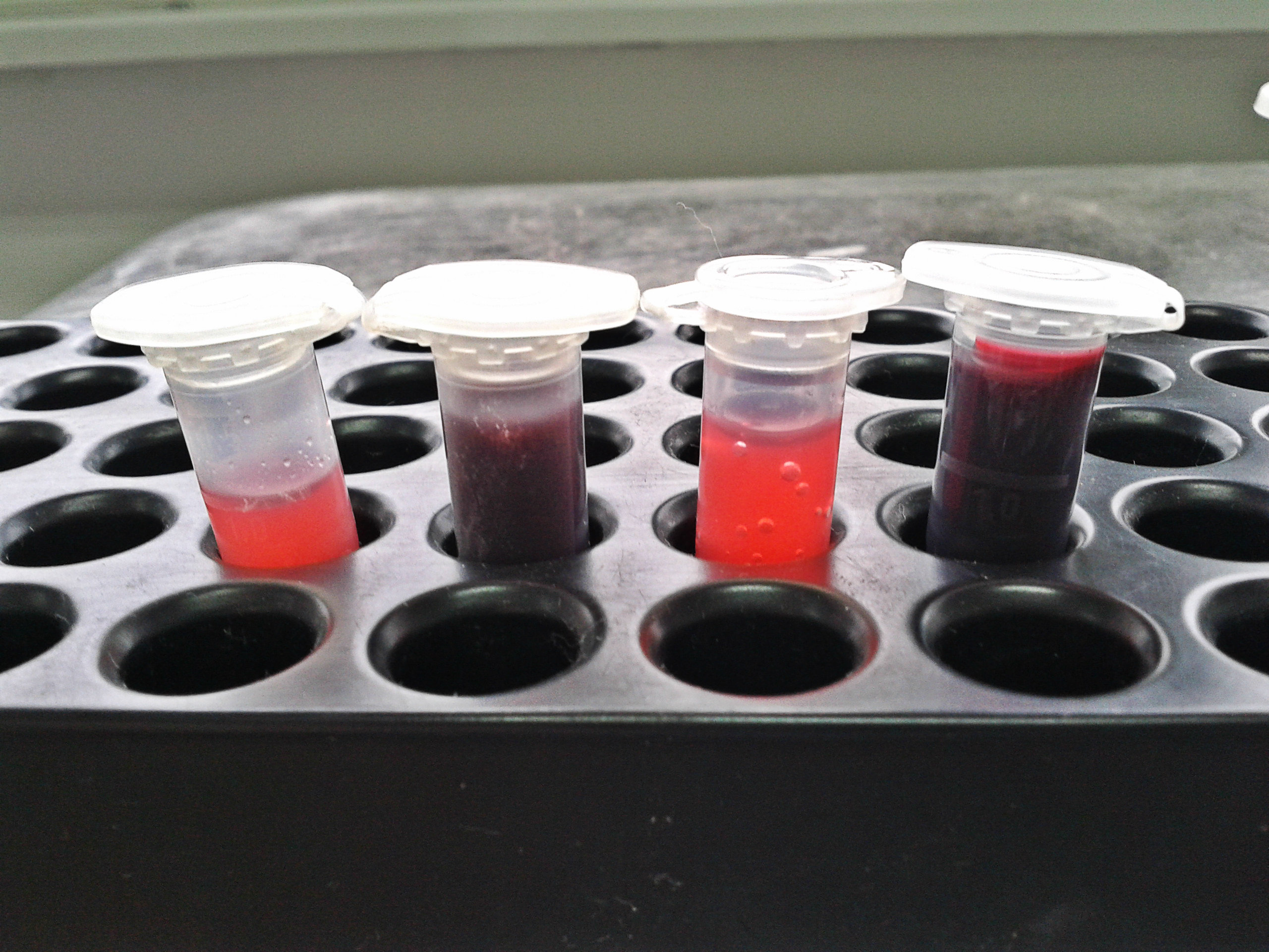 Prepared cranberry and blueberry juices for antibiogram test